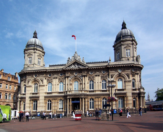 Hull Maritime Museum Hull, East Riding of Yorkshire, England.Maritime Museum (former Dock Office), Queen Victoria Square. Built 1867-71 by Christopher G. Wray in Venetian Renaissance style. For a picture of this building in 1903